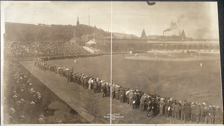 Exposition Park, Pittsburgh, Pennsylvania, 1904 August 23